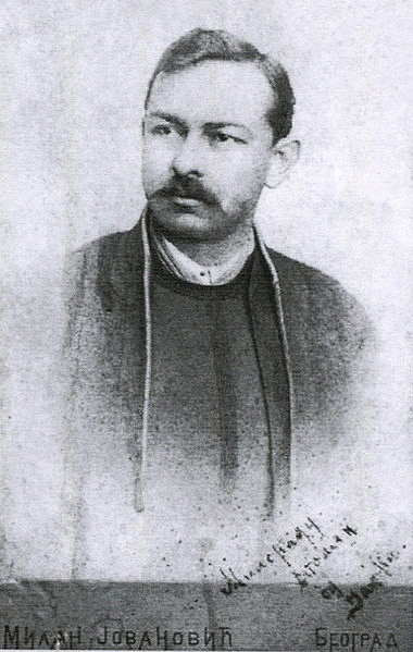 Janko Veselinović (1862-1905), writer, source PTT journal, the photo is over 100 years old. Photo made by ​​Milan Jovanović (photographer).